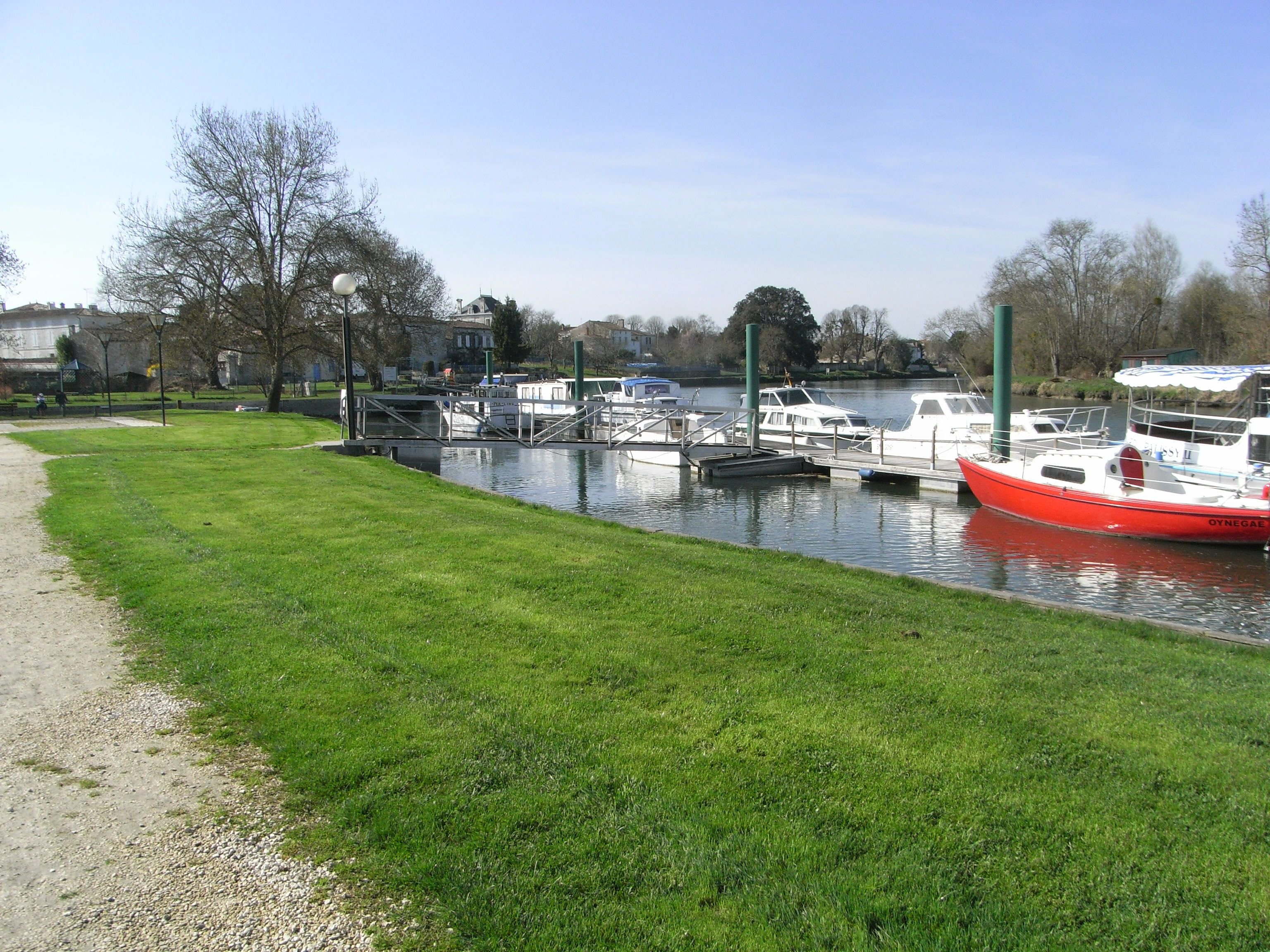 The river Charente à Port d'Envaux in France